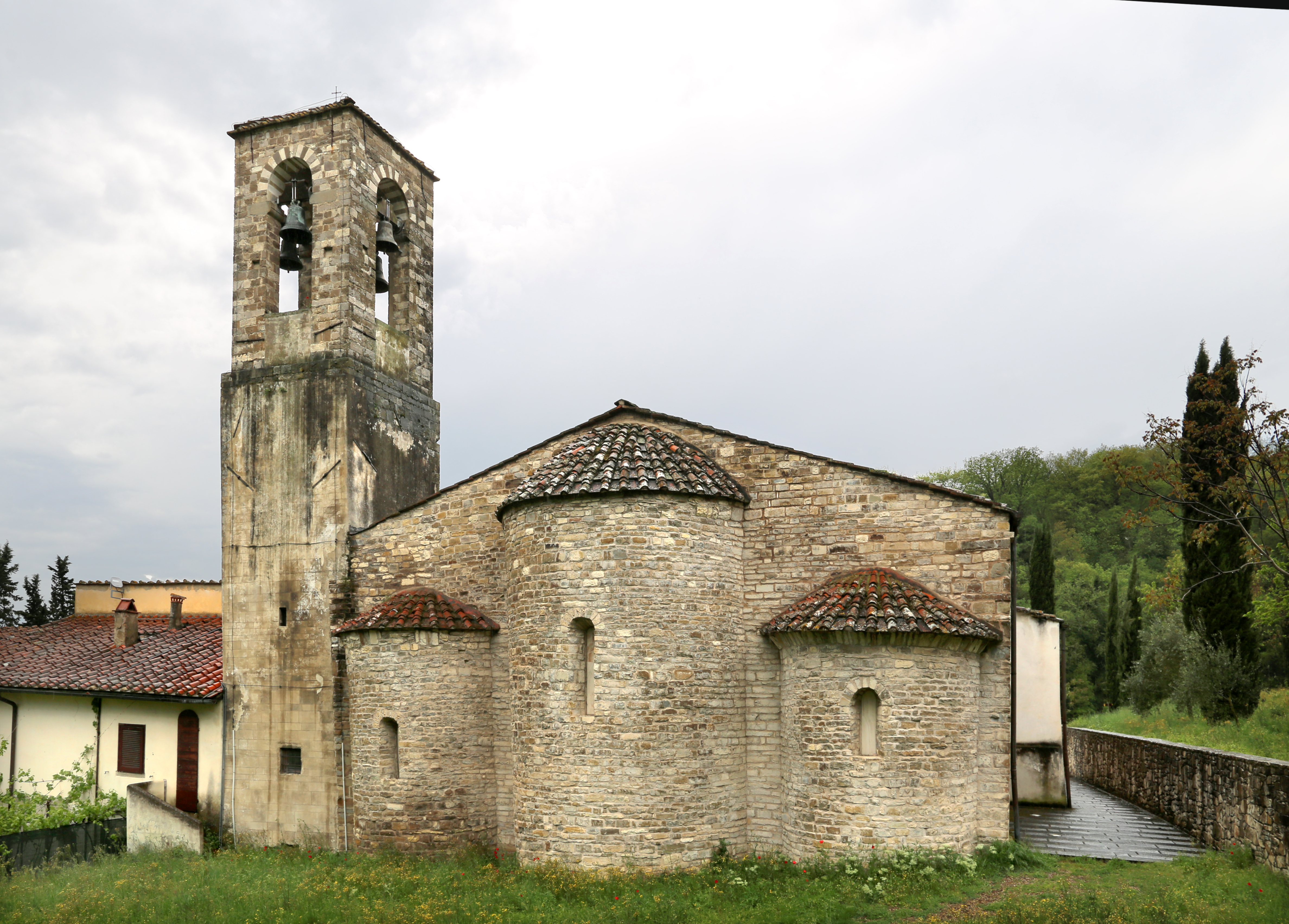 San Leolino (Rignano sull'Arno)